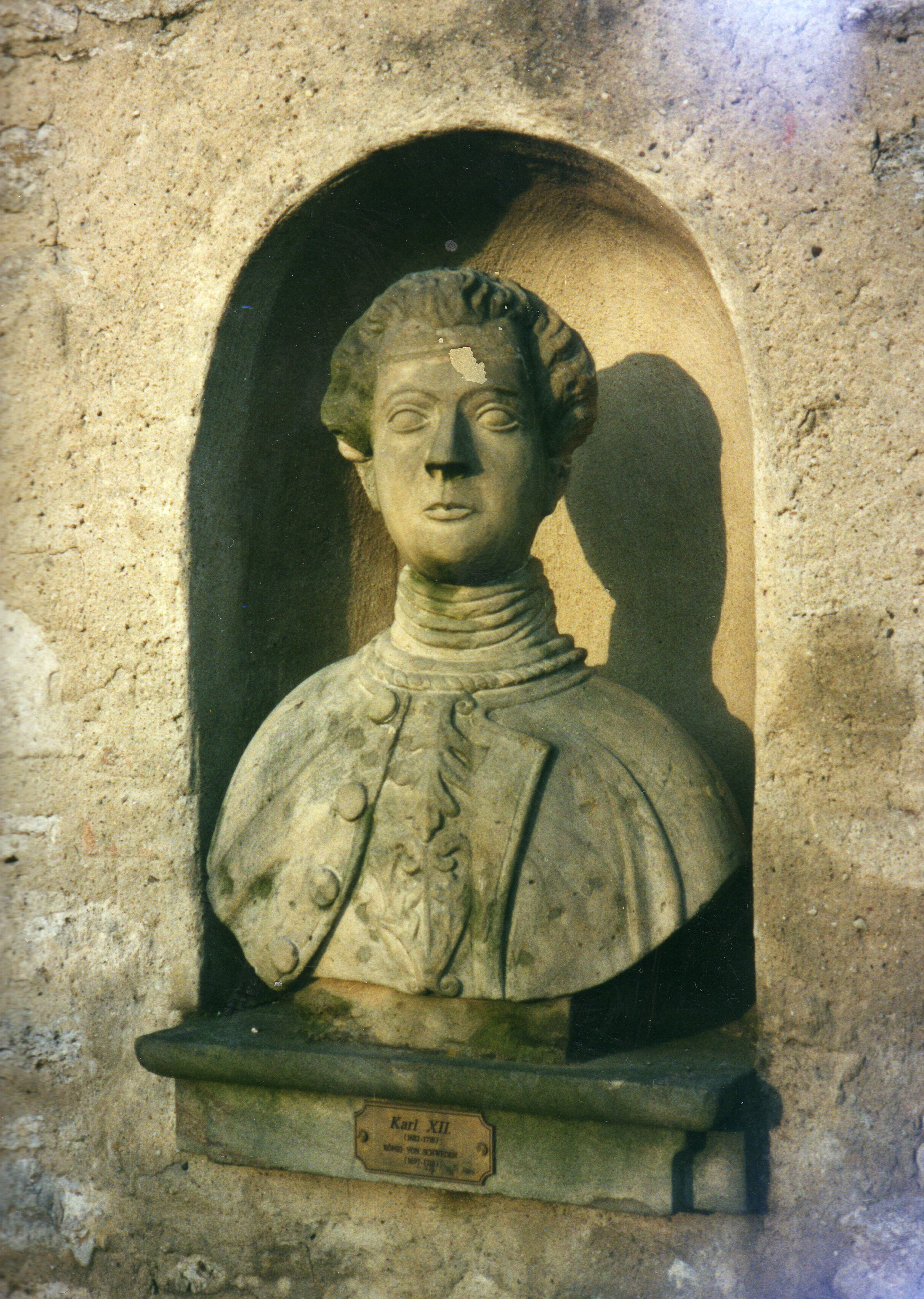 Bust of Swedish King Karl XII in park of Schloss Kromsdorf